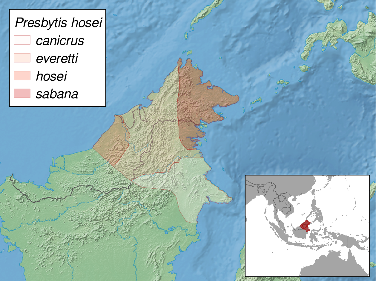 geographic distribution of Presbytis hosei, separate colors for the subspecies P.h. canicrus, P.h. everetti, P.h. hosei and P.h. sabana